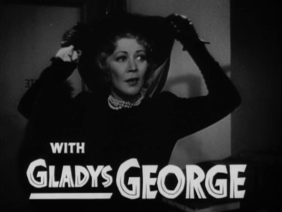 Frame from the 1941 public domain trailer for the Warner Bros. film The Maltese Falcon showing Gladys George with her name in type.